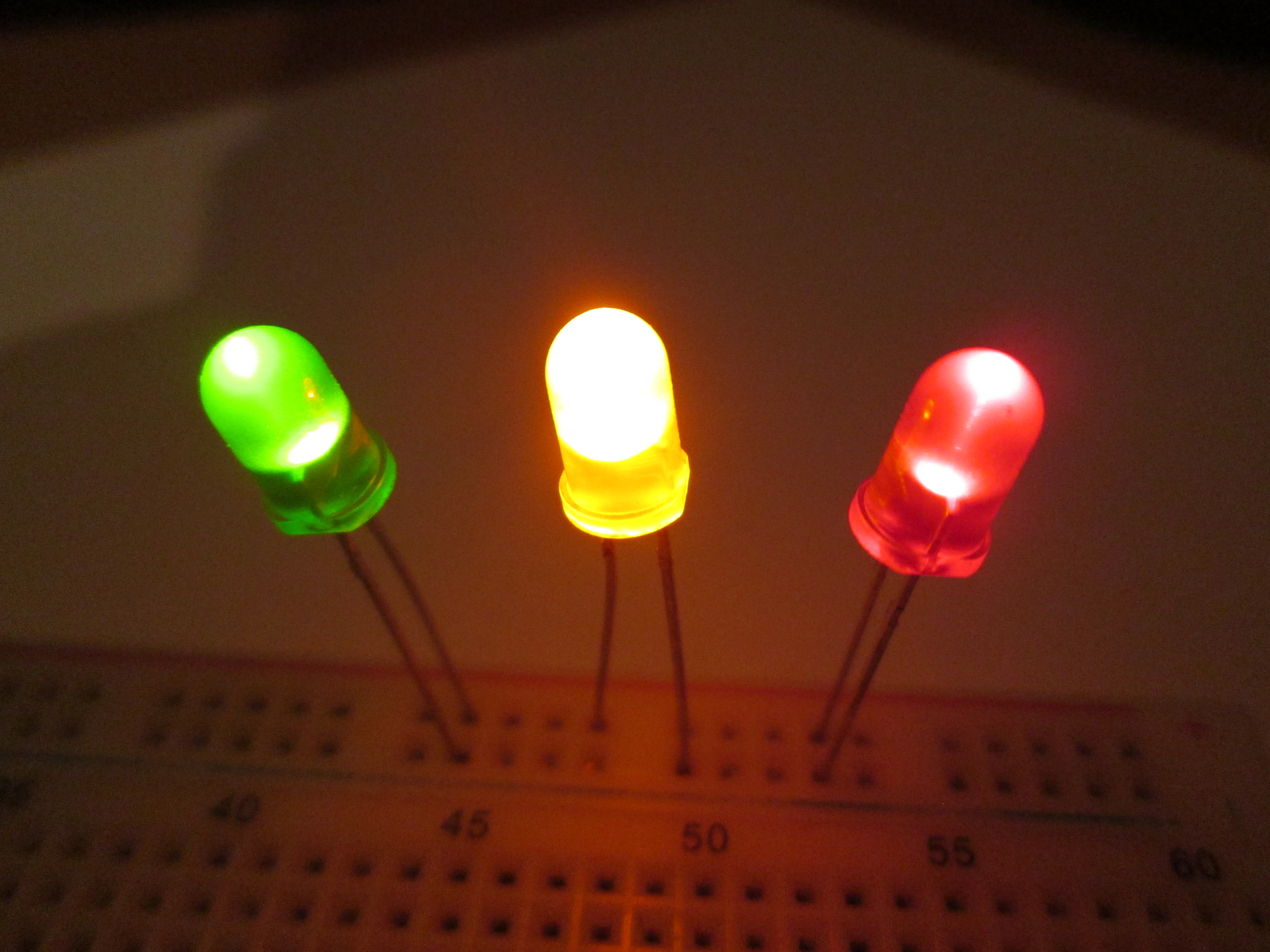 Green, yellow and red LED.